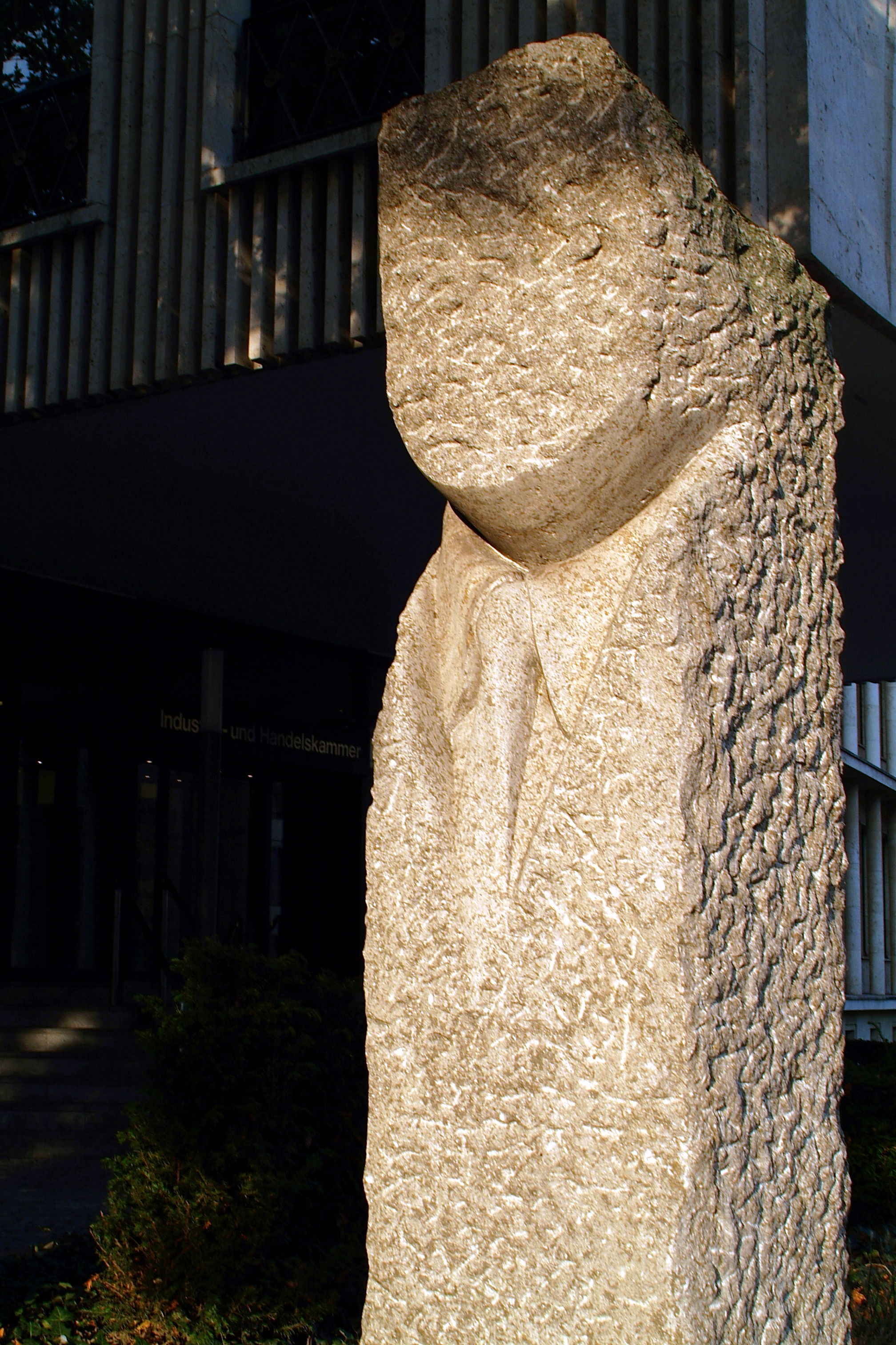 Sculptures "Drei Muschelkalkstelen" by Ulrike Enders located at Berliner Allee and Platz der Kaufleute in Hanover, Germany.